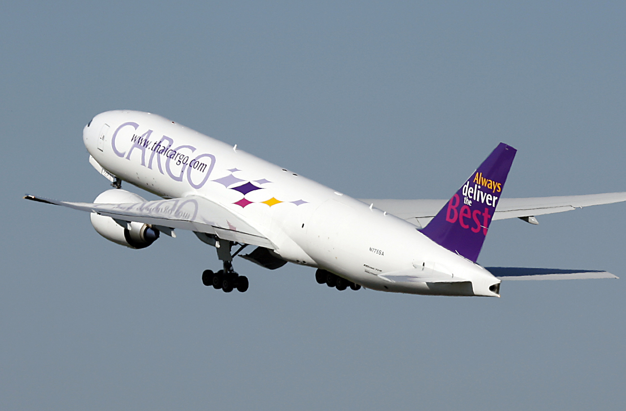 Thai Boeing 777F taking off from Schiphol